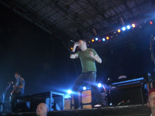 Tim McIlrath performing onstage at the Time Warner Cable Amphitheater on October 2nd, 2008.